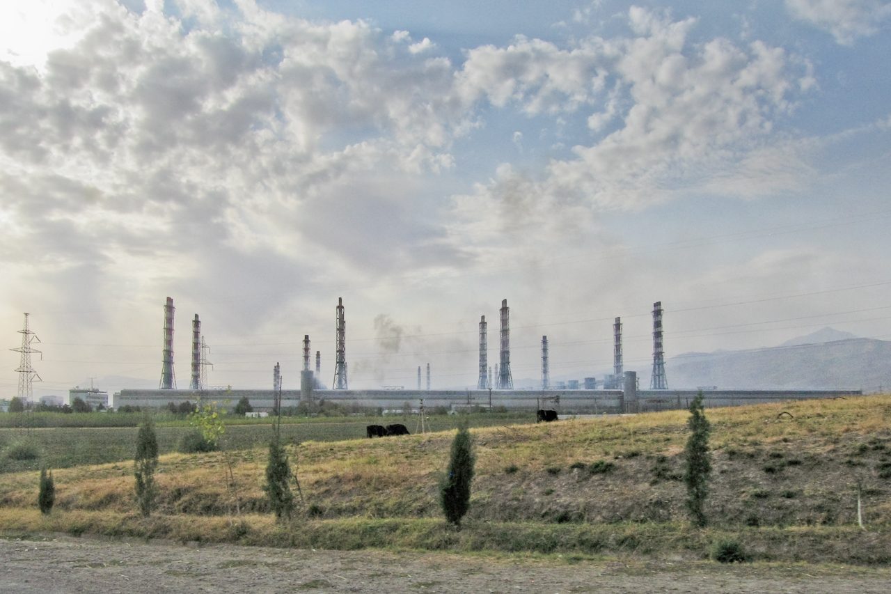 The Tajik Aluminum Company (TALCO), located in Tursunzoda, Tajikistan.